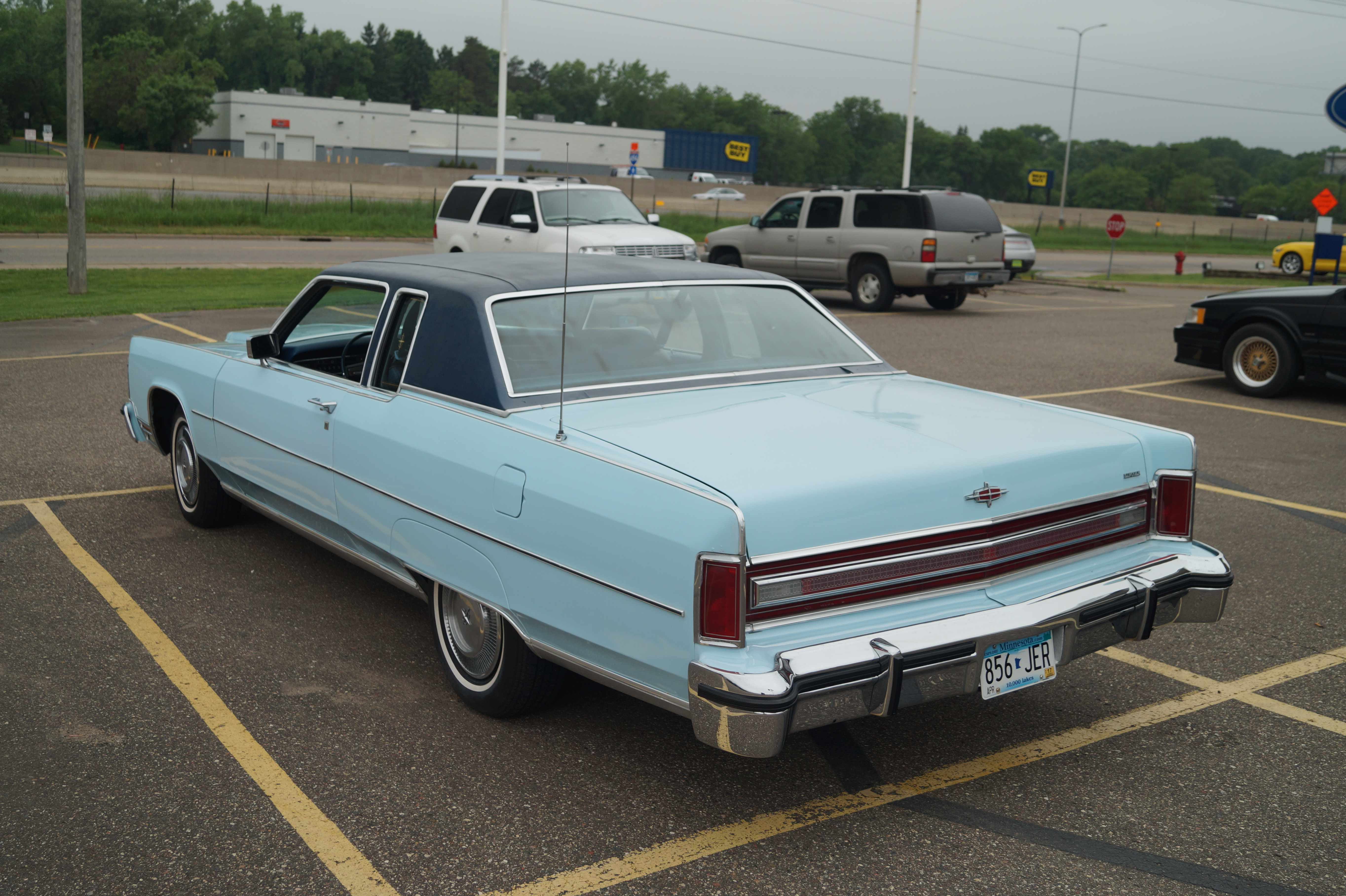 Lincoln & Continental Owners' Club North Star Region 8th Annual Classic Lincoln Car Show Morrie's Minnetonka Ford-Lincoln Minnetonka, Minnesota Click here for more car pictures at my Flickr site.